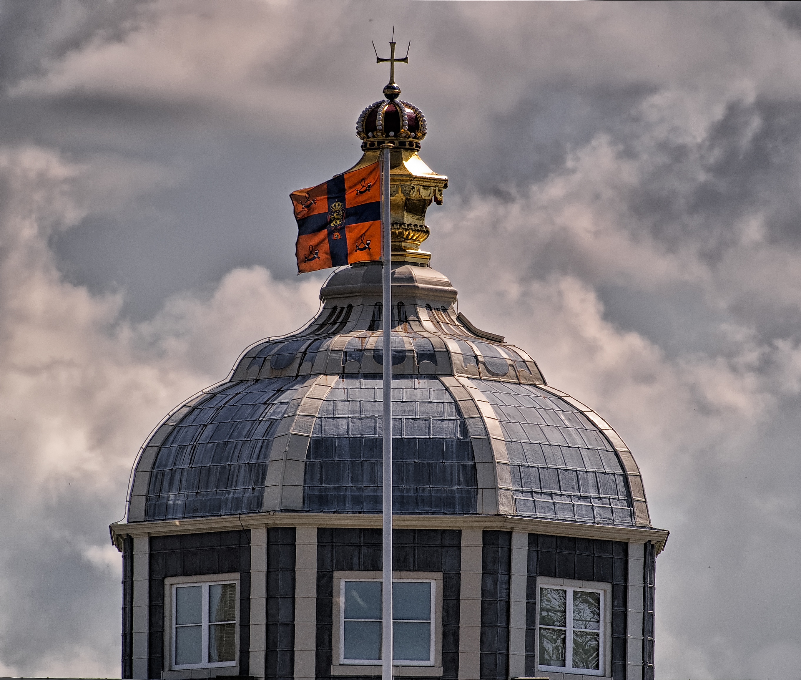 Royal Palace Huis ten Bosch, The Hague, the Netherlands